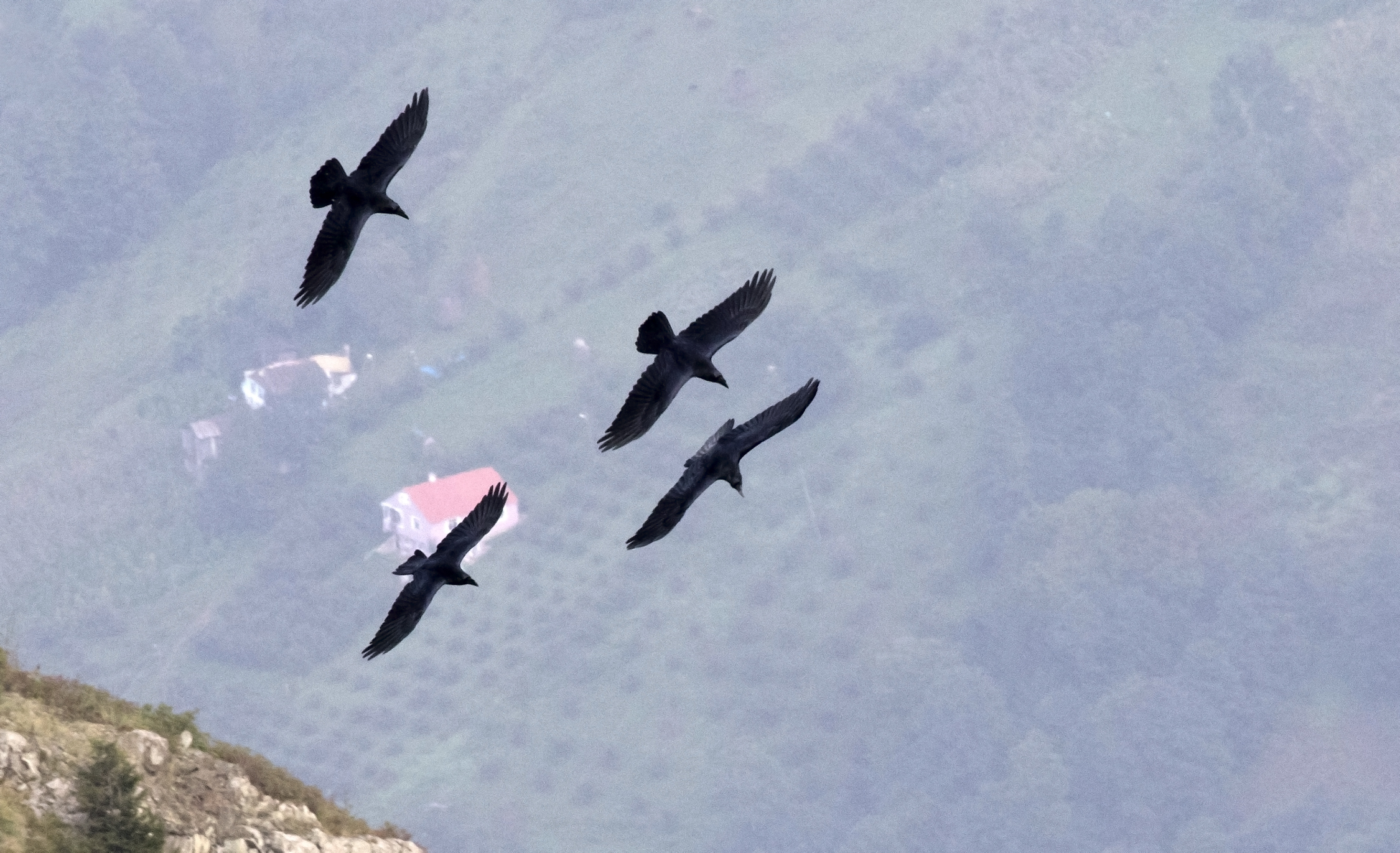 Northern Ravens (Corvus corax in flight. Yeşildere, Görele - Giresun, Turkey.